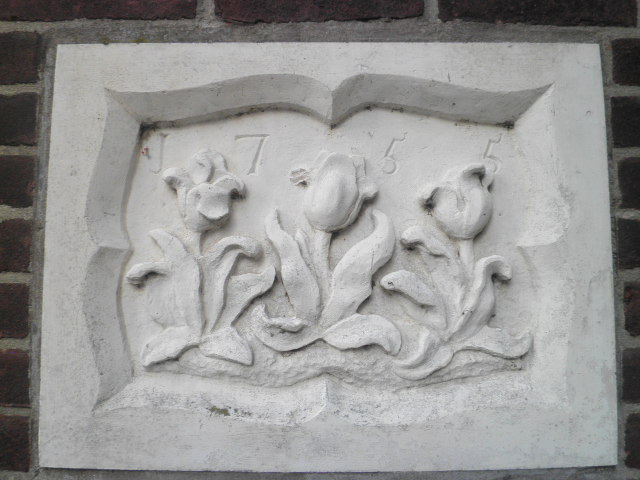 Gable stone of clandestine church De Drie Tulpen in Hoorn, original is in the Westfries Museum.